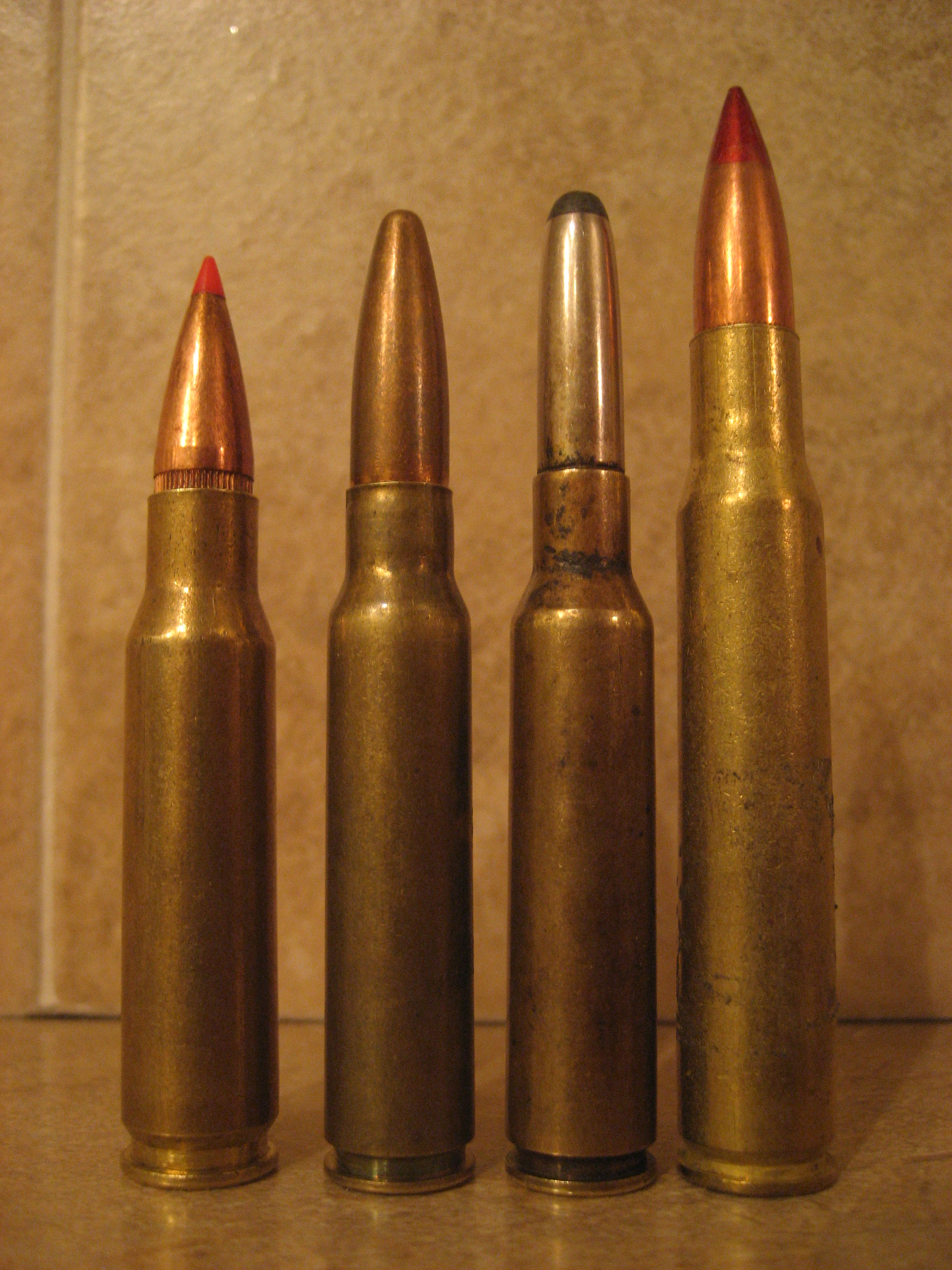 7.35 and 6.5mm Carcano